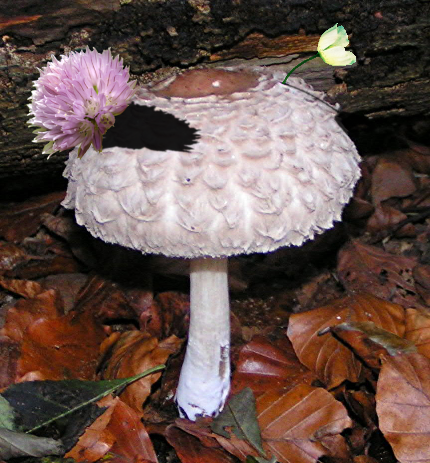 Champignon en fleur (vue d'artiste) / Mushroom in flowers (artist's view)